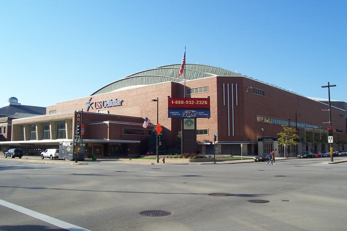 Copyright © 2005 Sulfur The U.S. Cellular Arena (formally known as the MECCA Arena), is a sports and entertainment venue located in downtown Milwaukee, Wisconsin. Category:Images of Milwaukee, Wisconsin